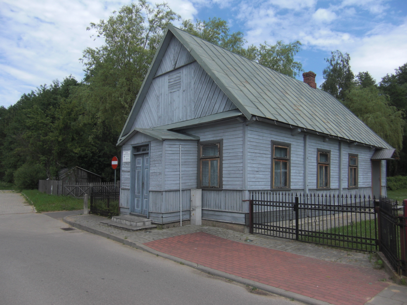 Baptist Church in Białowieża